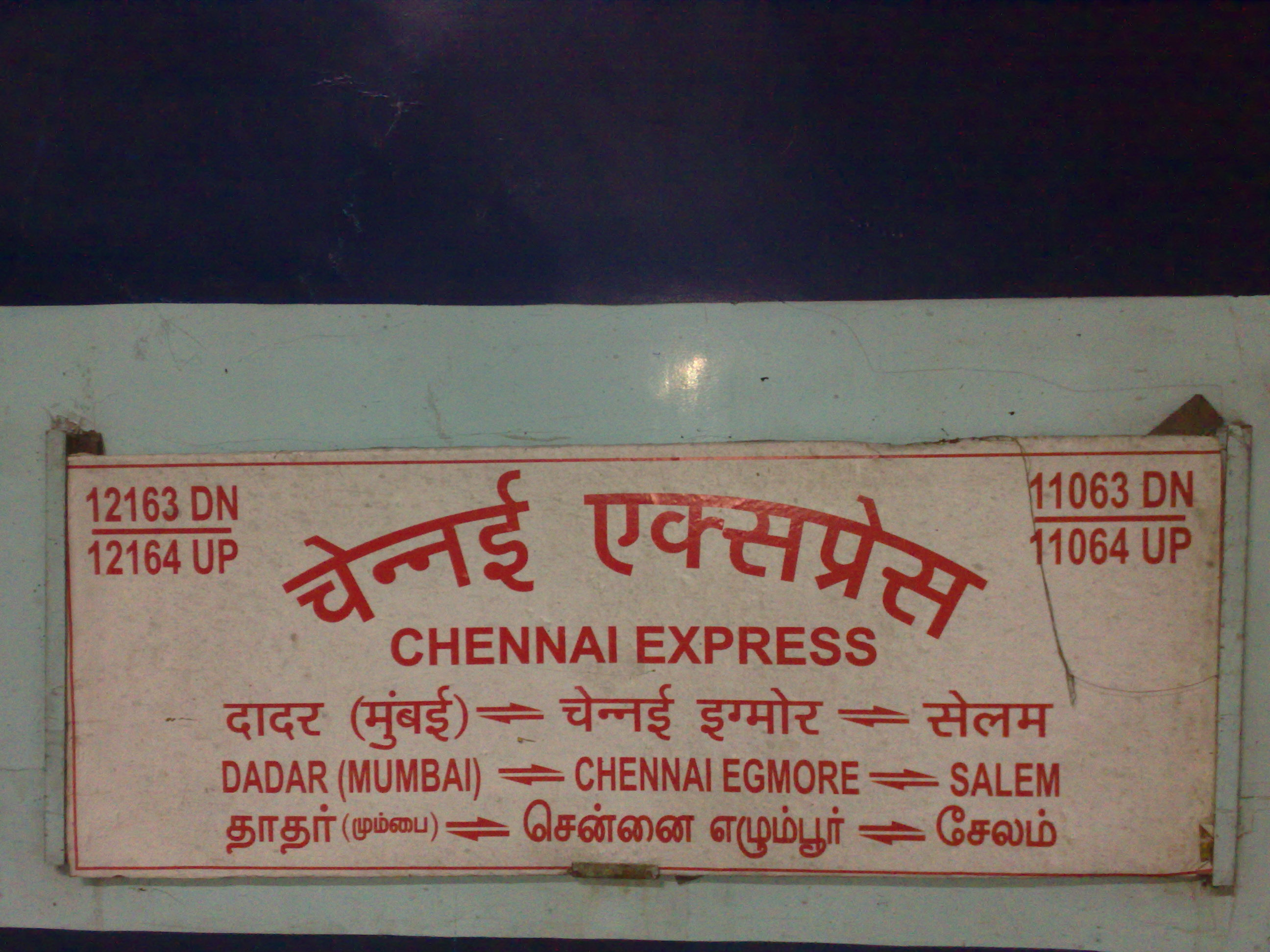 Dadar Chennai Egmore Express